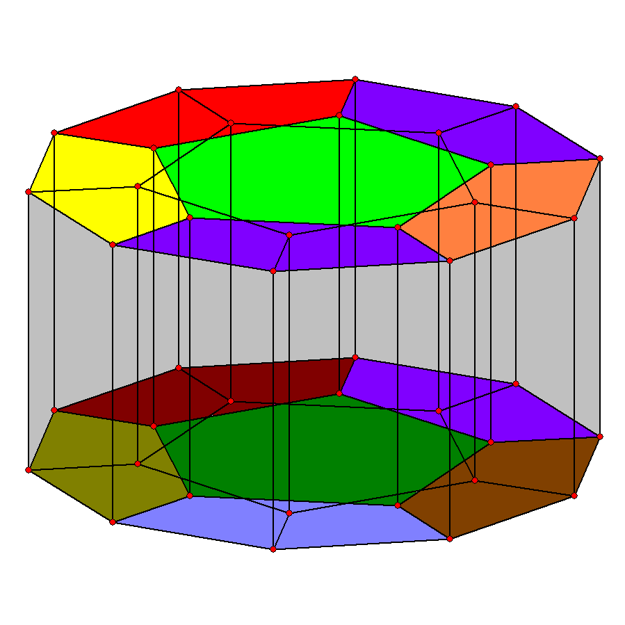 Orthogonal projection of Dodecahedral hyperprism. Faces partially colored to help show parallel pairs of dodecahedrons.